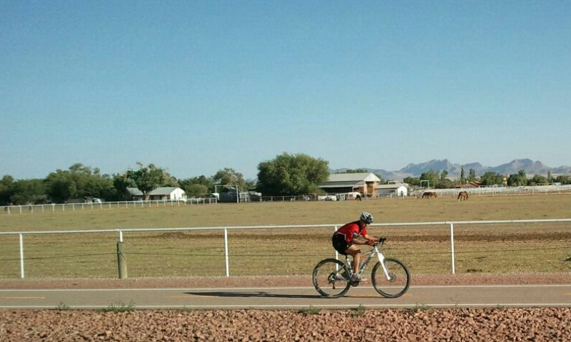 El Paso's Upper Valley near Sunland Park, New Mexico.